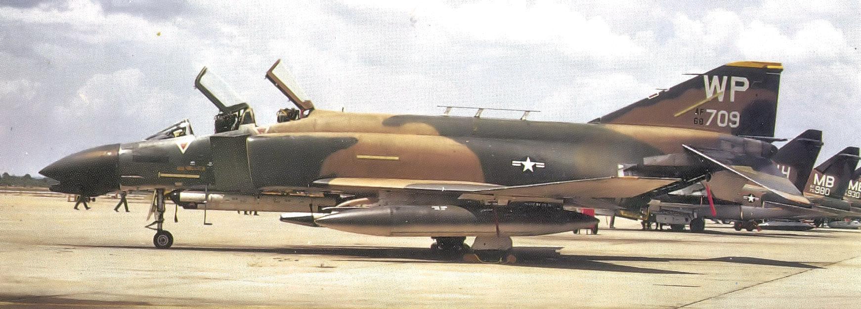 25th Tactical Fighter Squadron McDonnell F-4D-32-MC Phantom 66-8709 Udorn Royal Thai Air Force Base, Thailand (Photo taken at Korat RTAFB), 1974. Aircraft retired to AMARC as FP0164 Oct 6, 1988.